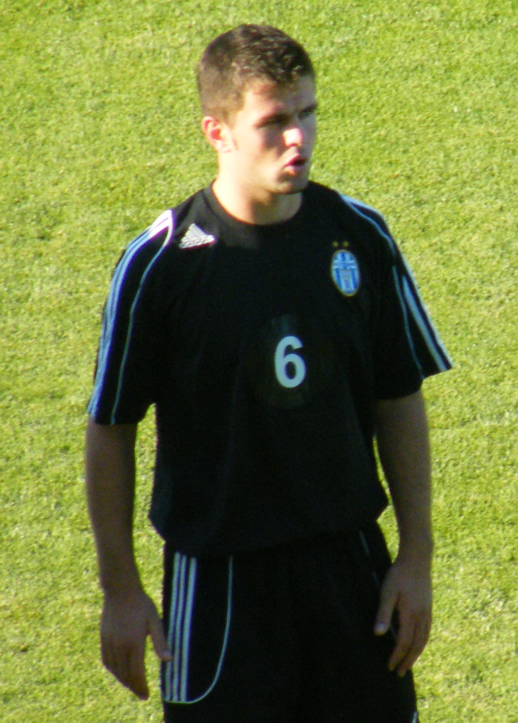 Lila Andi Albanian football player